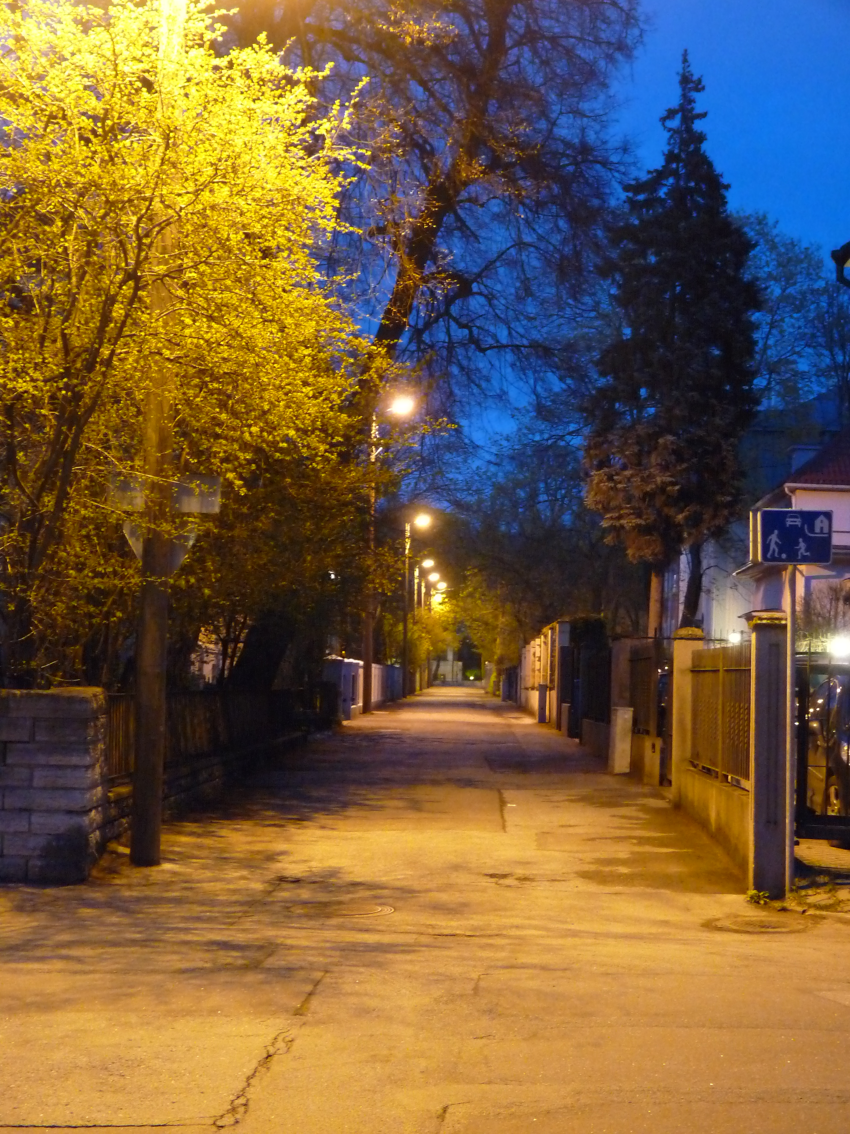 Alle street in Tallinn, Estonia